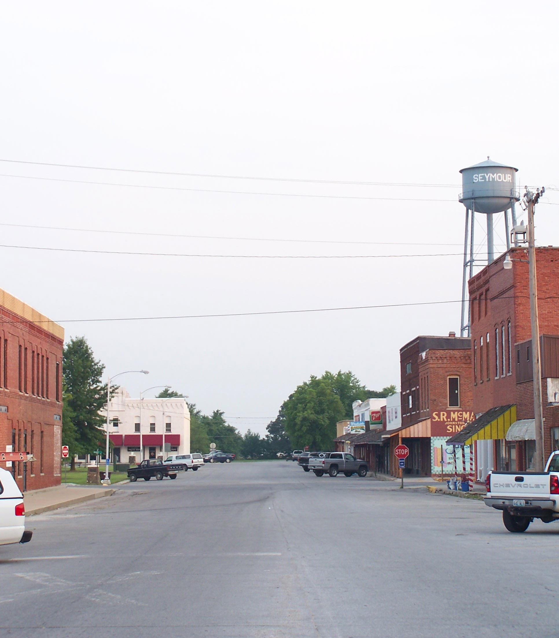 View of West side of town square looking south; July 2006.